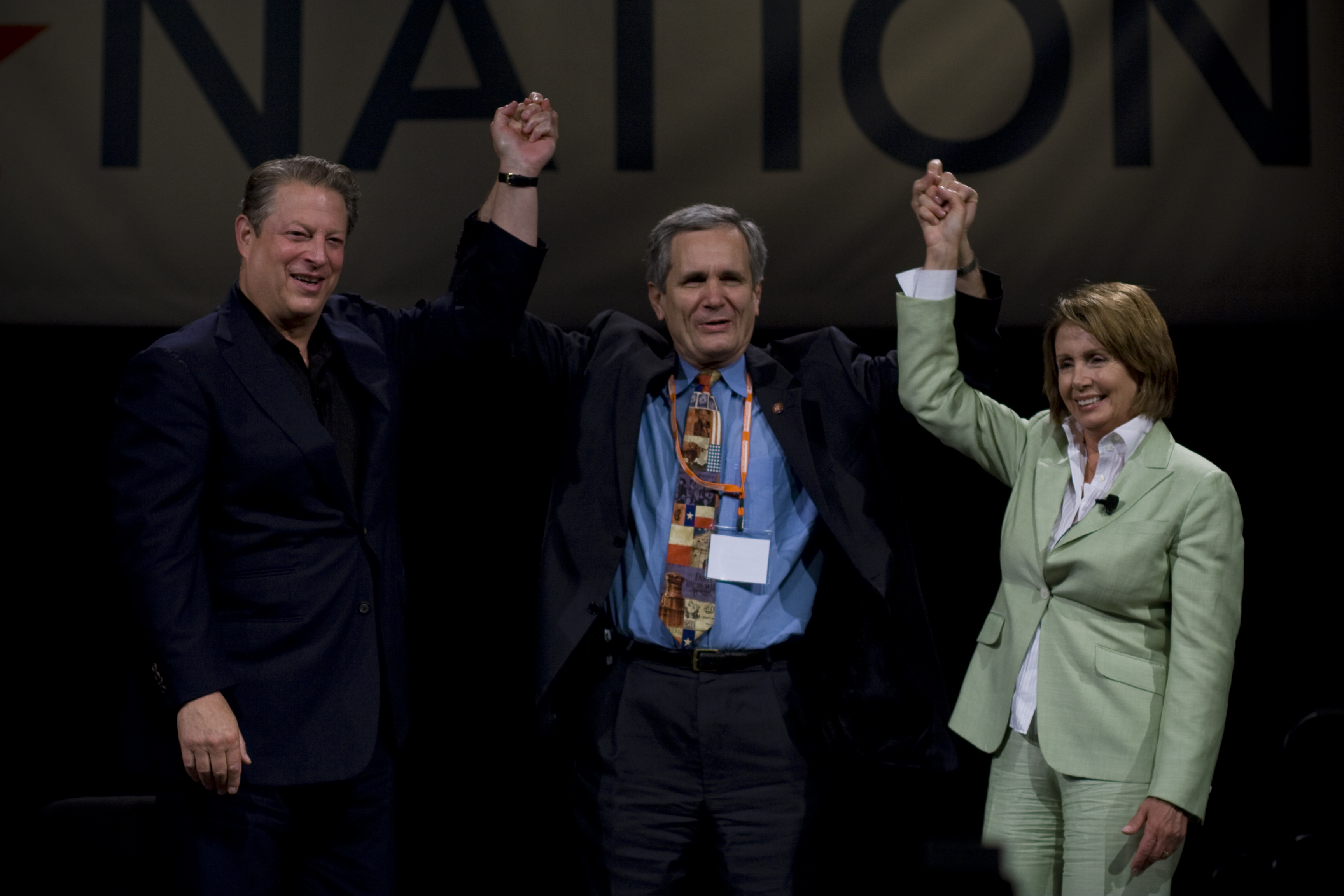 080719_NetrootsNation_0400